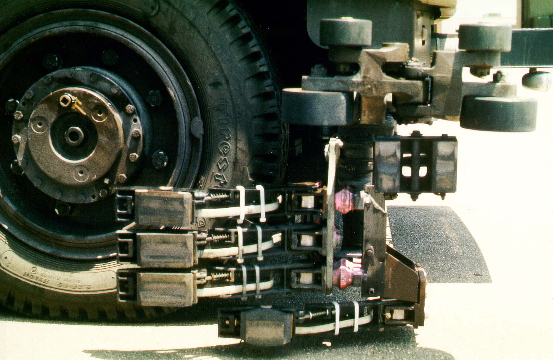 Airtrans Power